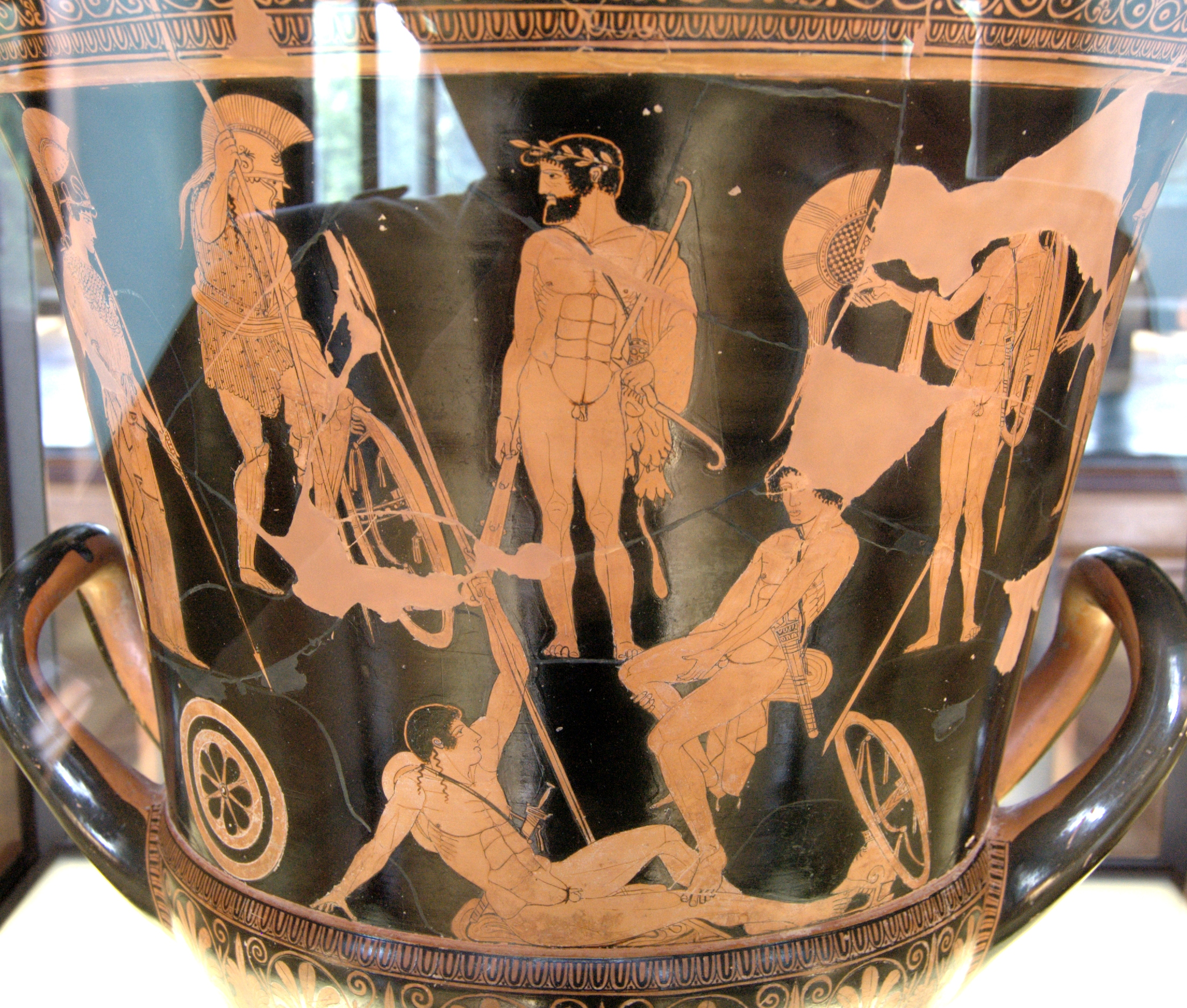 Heracles and the gathering of the Argonauts (or Heracles in Marathon?). Side A from an Attic red-figure calyx-krater, 460–450 BC. From Orvieto (Volsinii).